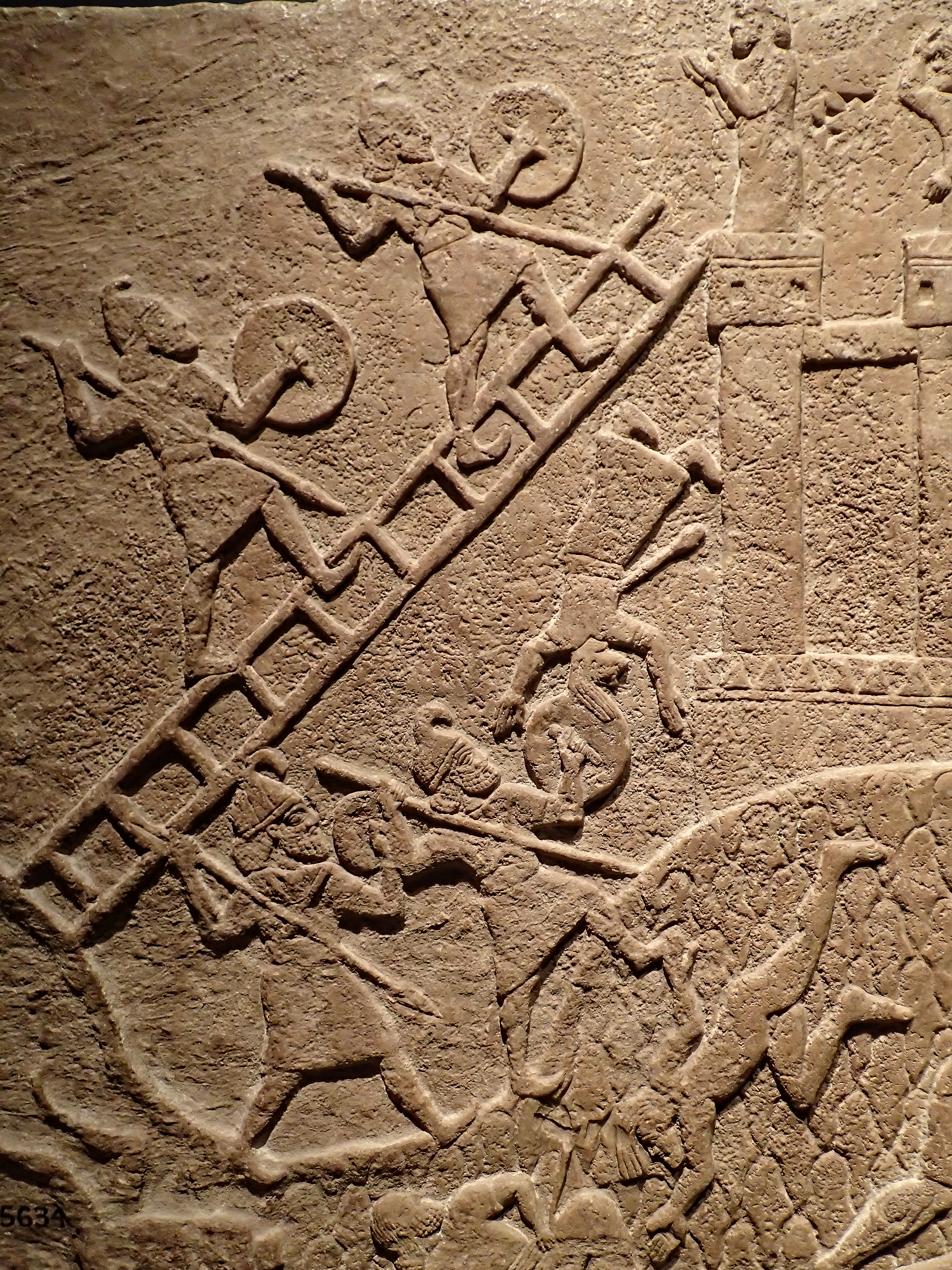 Soldiers using siege ladders in Assyrian relief of attack on an enemy town during the reign of Tiglath-Pileser III 720-737 BCE from his palace at Kalhu (Nimrud), gypsum, now in the collections of the British Museum on loan to the Getty Villa